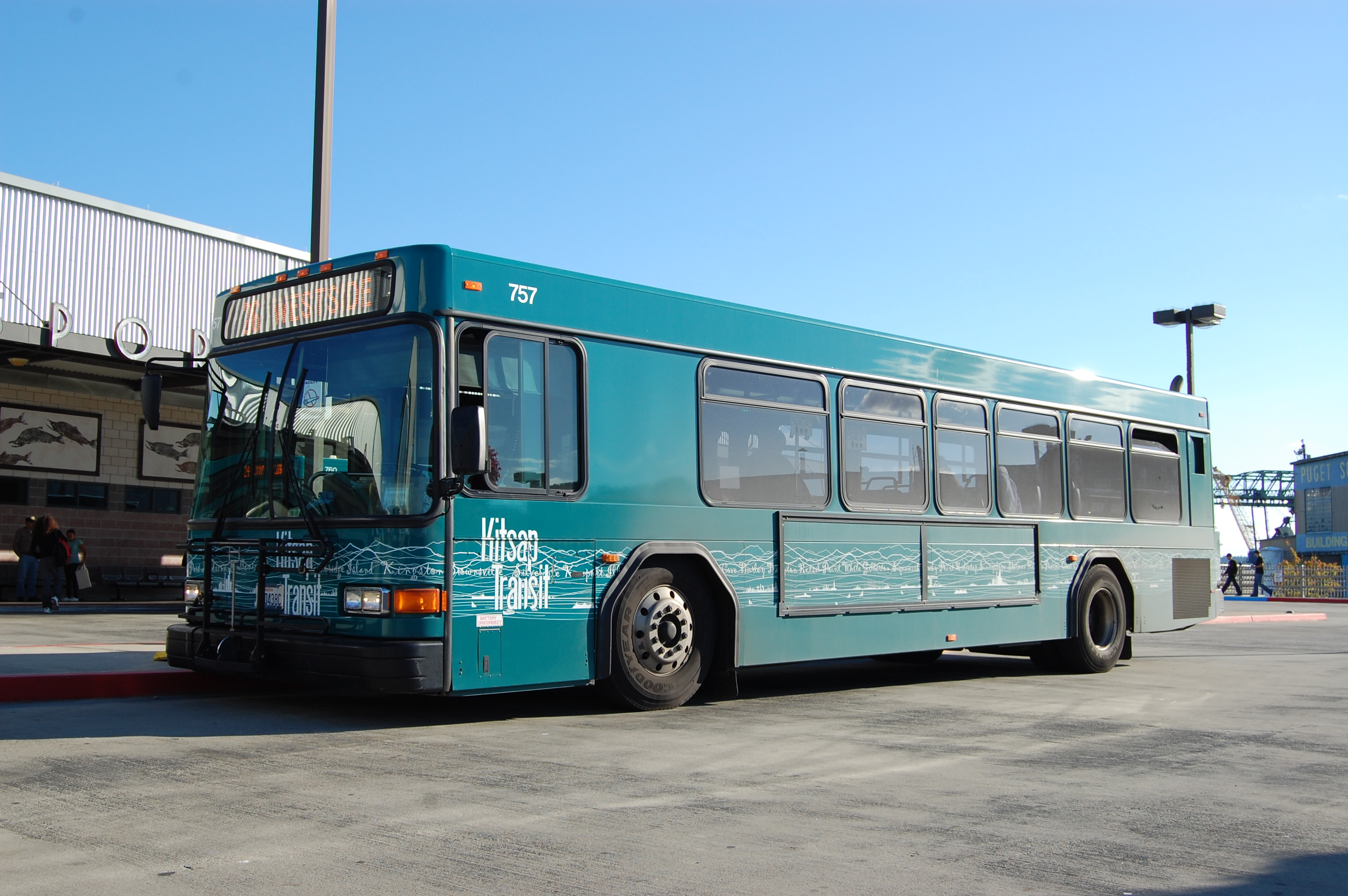 A Kitsap Transit bus in Bremerton. Near the ferry terminal.